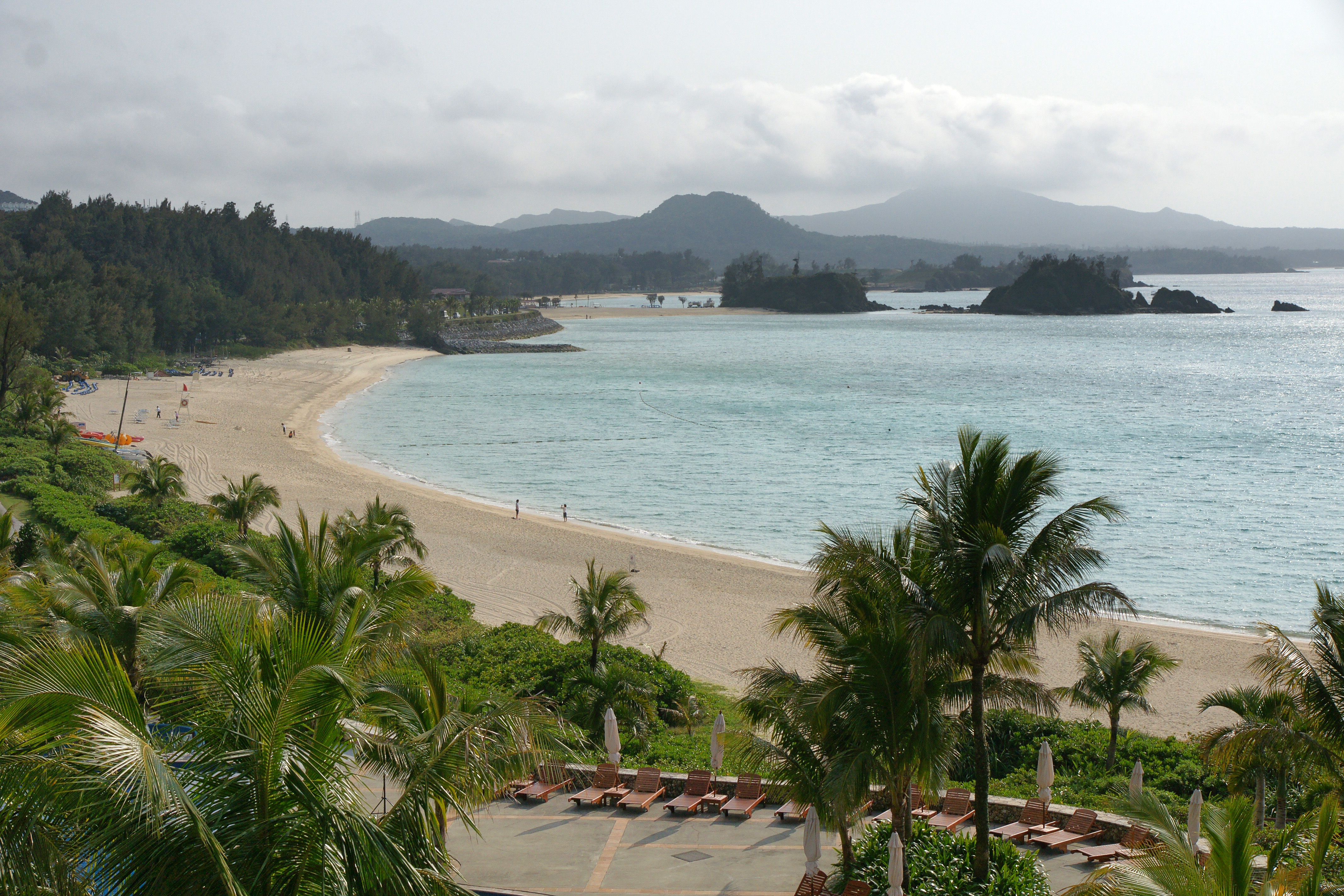 Cape Busena, Nago, Okinawa prefecture, Japan